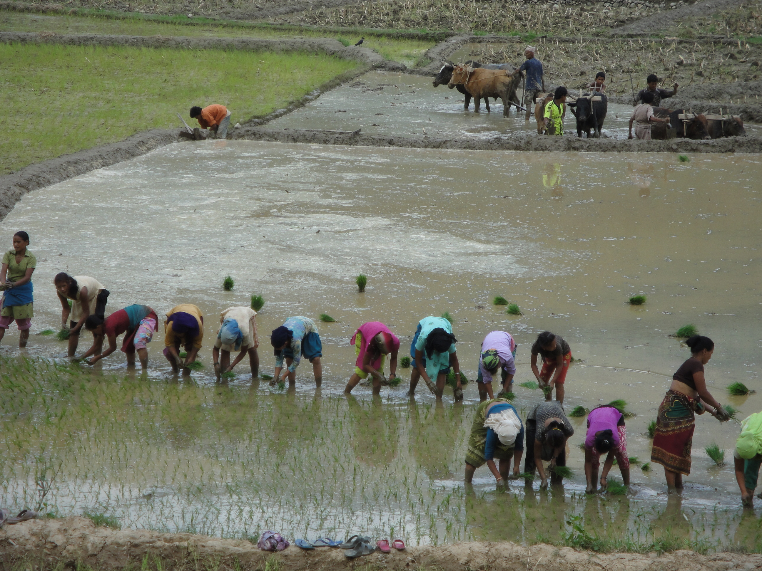 Planting Paddy in Ramechhap District in Nepal